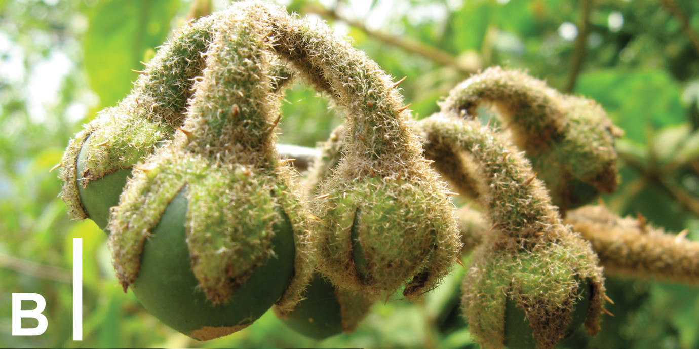 Fruiting inflorescence; note recurved pediels. Scale bars = 1 cm.